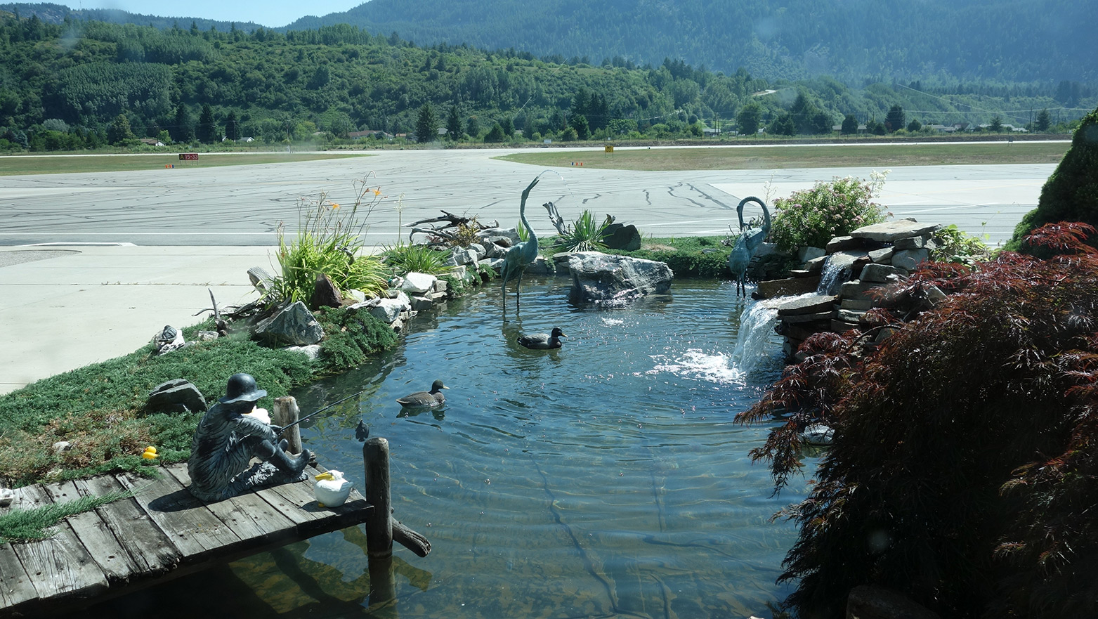 Fountain near the runway at Castlegar Airport, West Kootenays, British Columbia, Canada